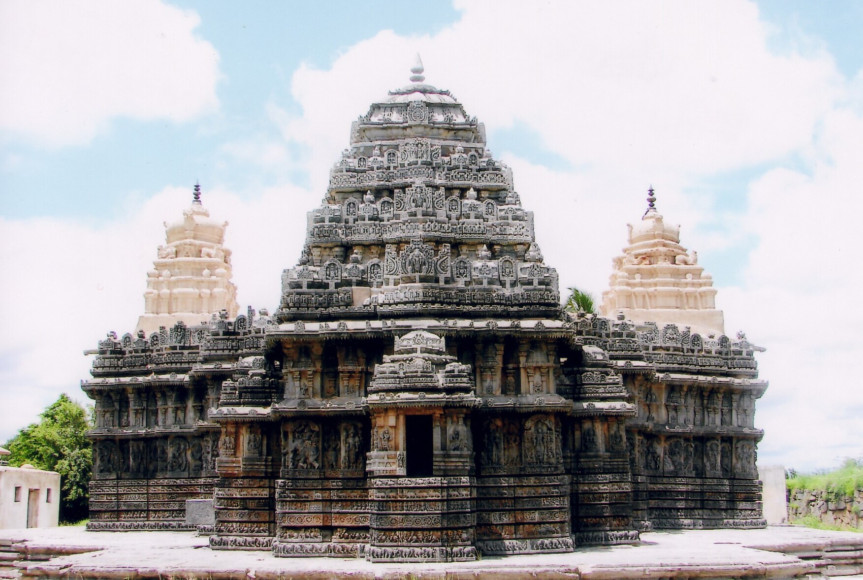 Lakshminarasimha Temple at Nuggihalli. Located in Karnataka, India.